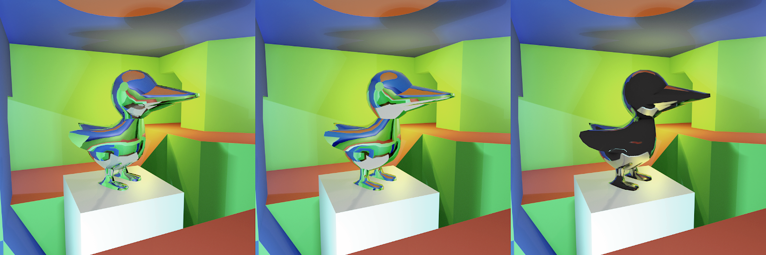 This image, made with Blender and GIMP, shows a comparison of three types of computed reflections: accurate with path tracing (left, should be same as with ray tracing etc.), approximate with environment mapping (middle, inaccuracies and lack of self reflections can be seen), approximate with screen-space reflections (right, missing parts due to lack of information can be seen). The models were made by me. The image was manually post-processed to correct colors between different renderers etc.